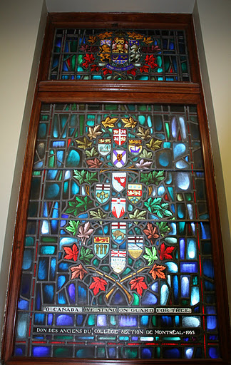 Stained glass, Oh Canada Royal Military College of Canada Club Montreal 1965